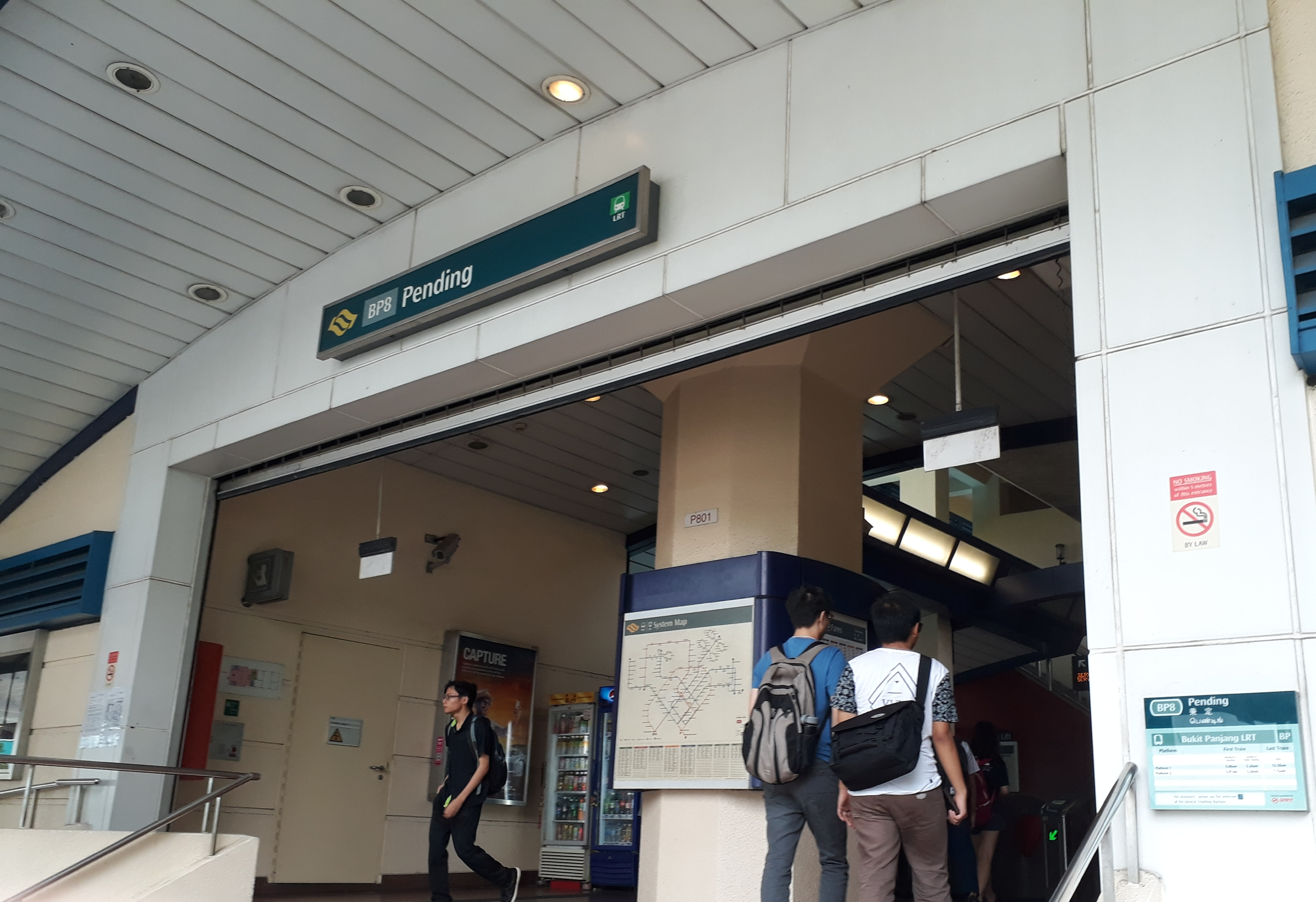 Pending LRT Station